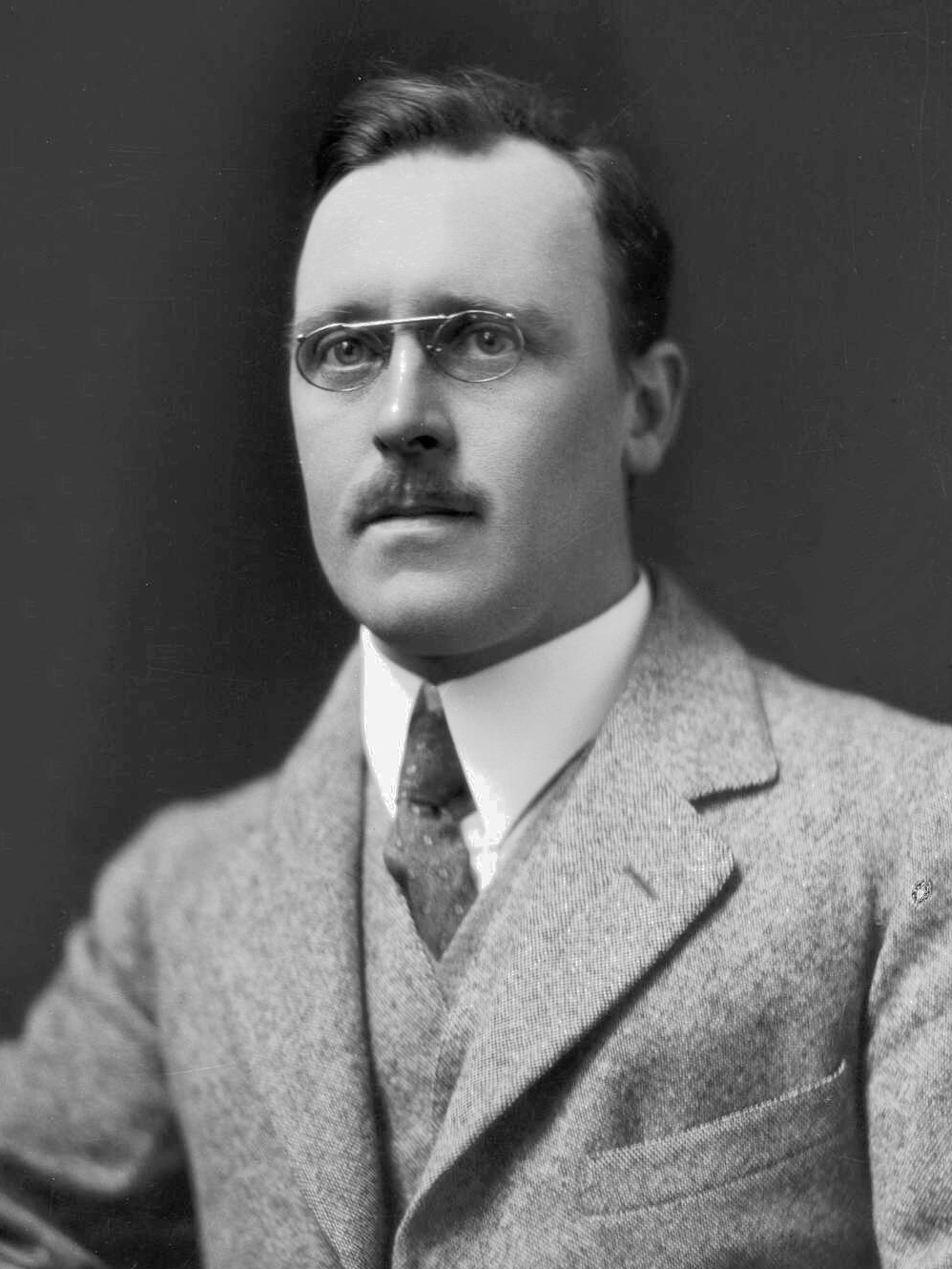 A photograph of Ernest Marsden, taken in 1921